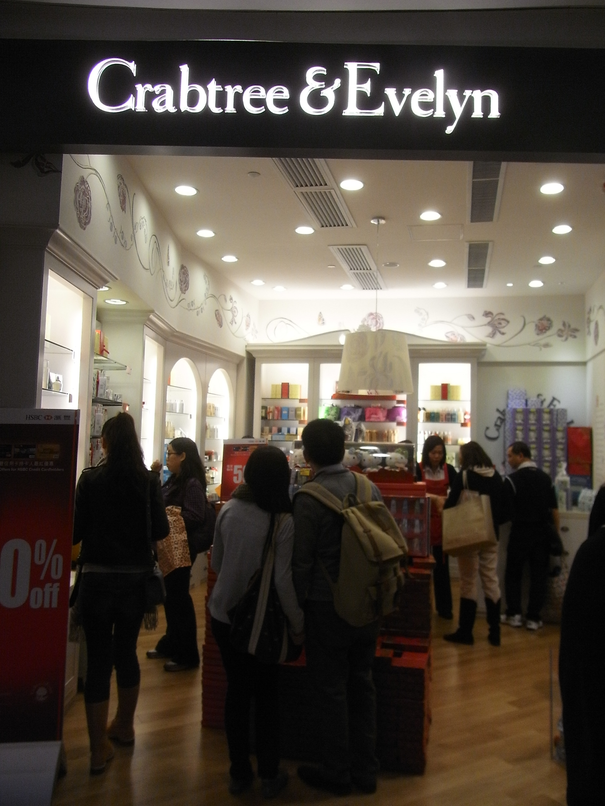 希慎廣場, Hysan Place Hong Kong in December 2012